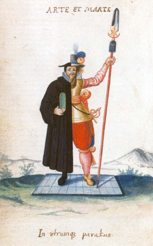 Drawing and text by Jacques Wijts, officer in the Dutch army, in the album amicorum of Ernst Brinck.